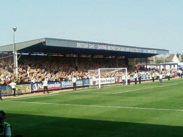 Cambridge United fans in full voice during a game against Tamworth (28/04/07) in the Newmarket Road End of the Abbey Stadium